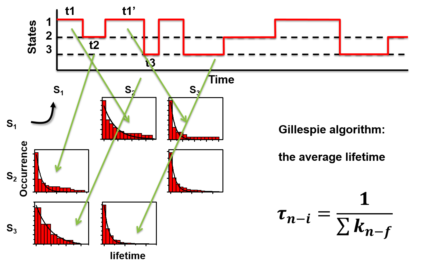 Scheme of smFRET lifetimes